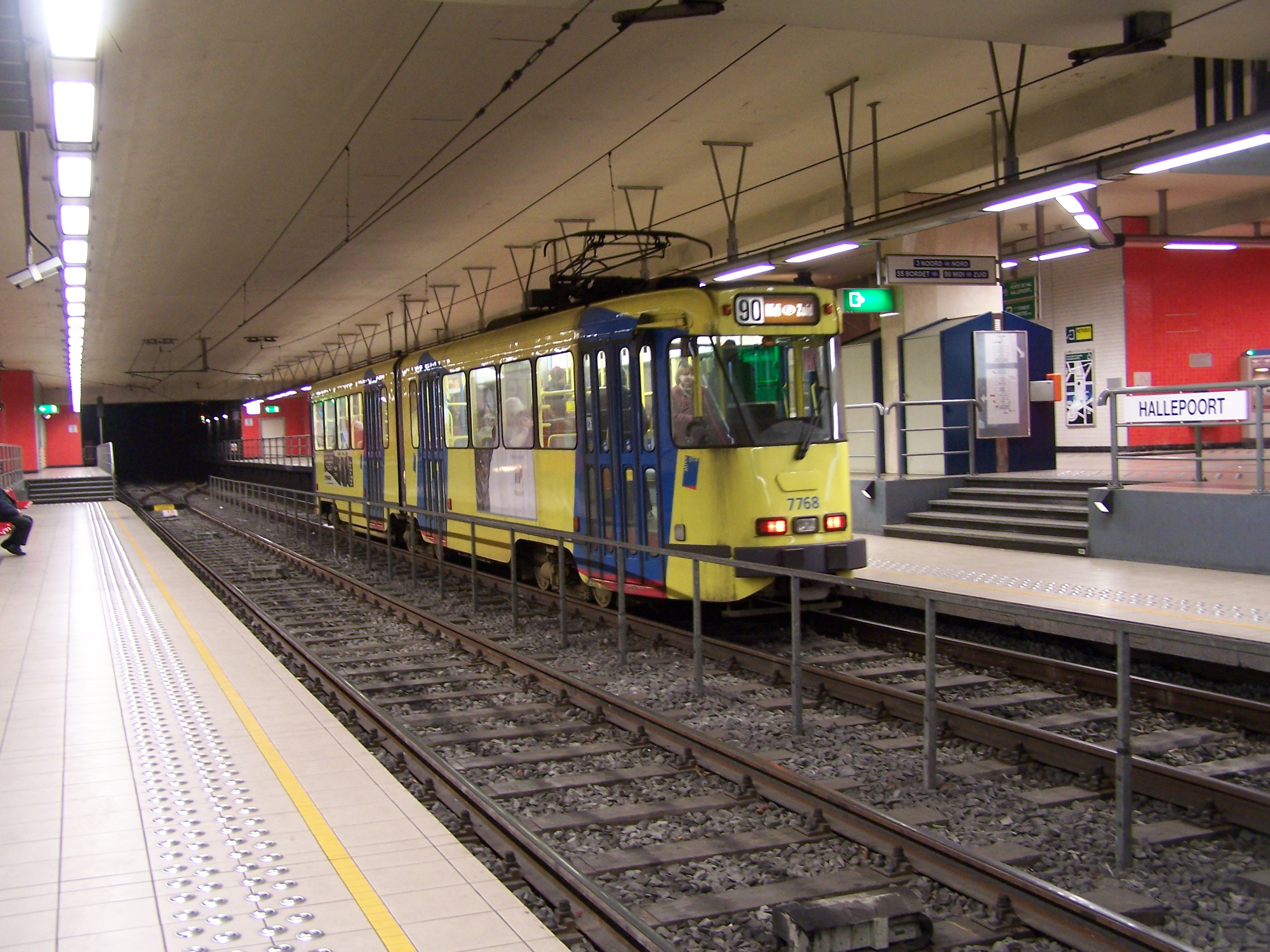 MIVB subwaystation Hallepoort